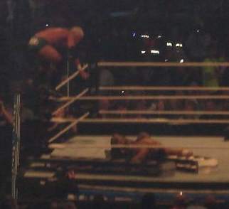 Mr. Kennedy about to perform his Kenton Bomb finisher (Senton bomb) to Matt Hardy at WrestleMania 23. (Cropped from flickr)